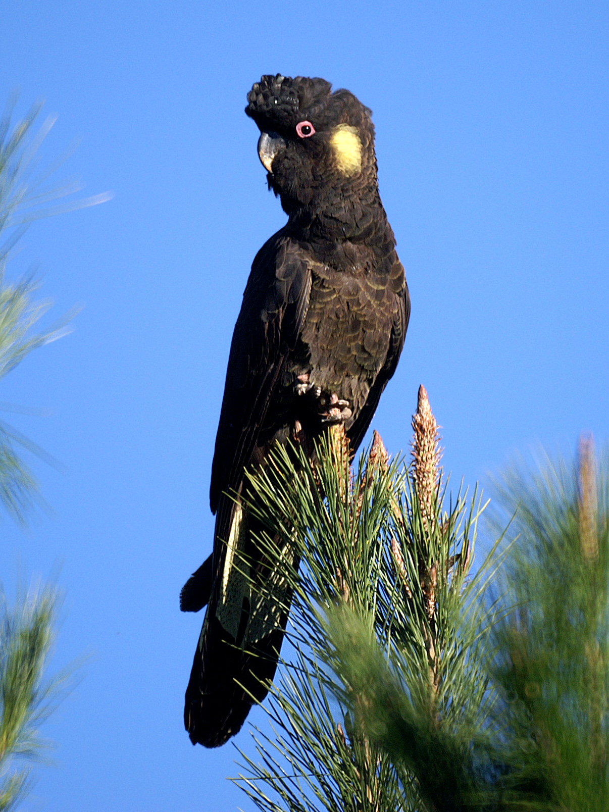 A male Yellow-tailed Black Cockatoo at Wamboin, NSW, Australia. The red eye-ring indicates that it is a male.